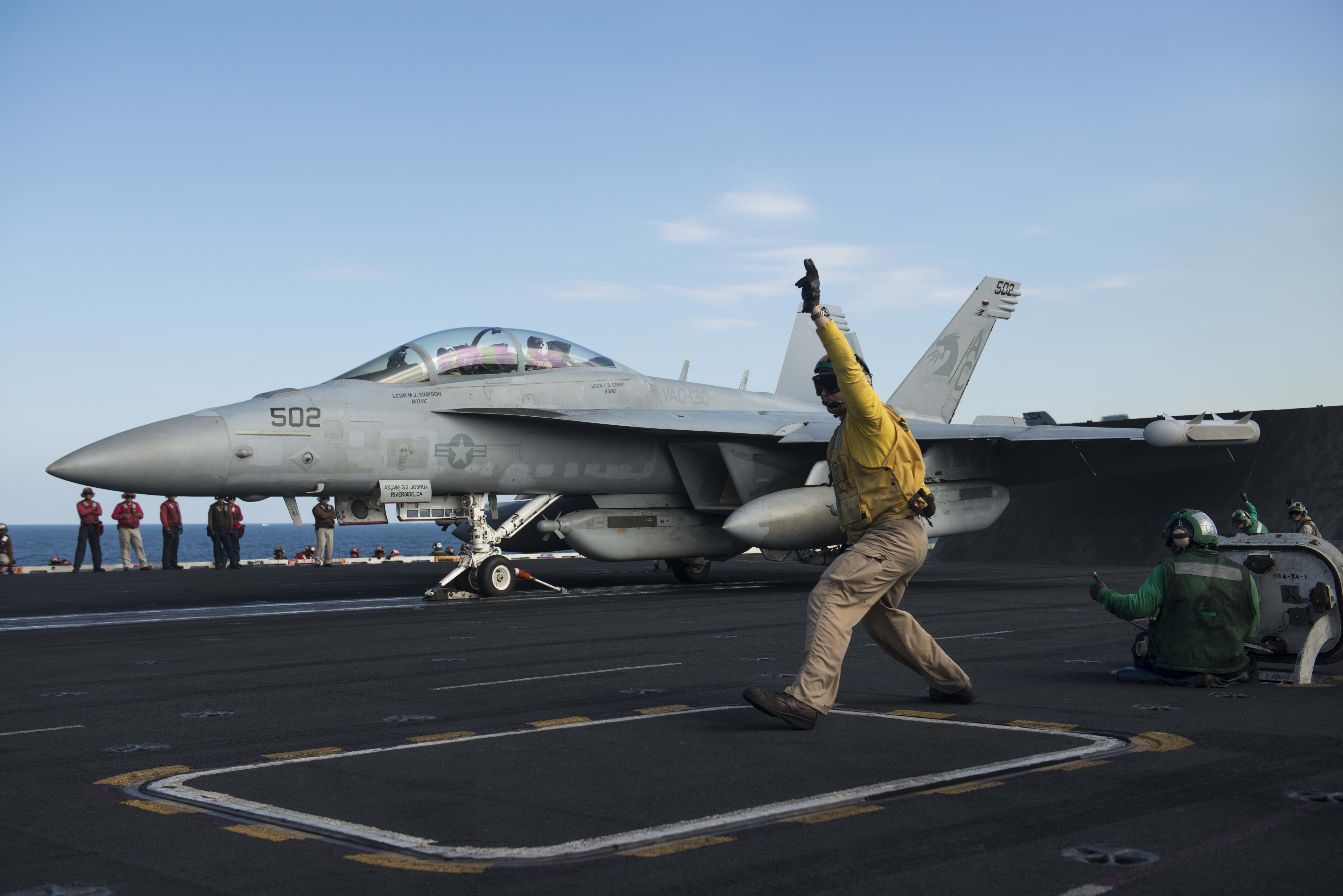 U.S. Navy Lt. Christopher Miller signals a Boeing EA-18G Growler, assigned to Electronic Attack Squadron VAQ-130 "Zappers", for launch from the flight deck of the aircraft carrier USS Harry S. Truman (CVN-75) in the Gulf of Oman. VAQ-130 was assigned to Carrier Air Wing 3 (CVW-3) aboard the Harry S. Truman for a deployment to Mediterranean Sea and the Indian Ocean starting 22 July 2013.